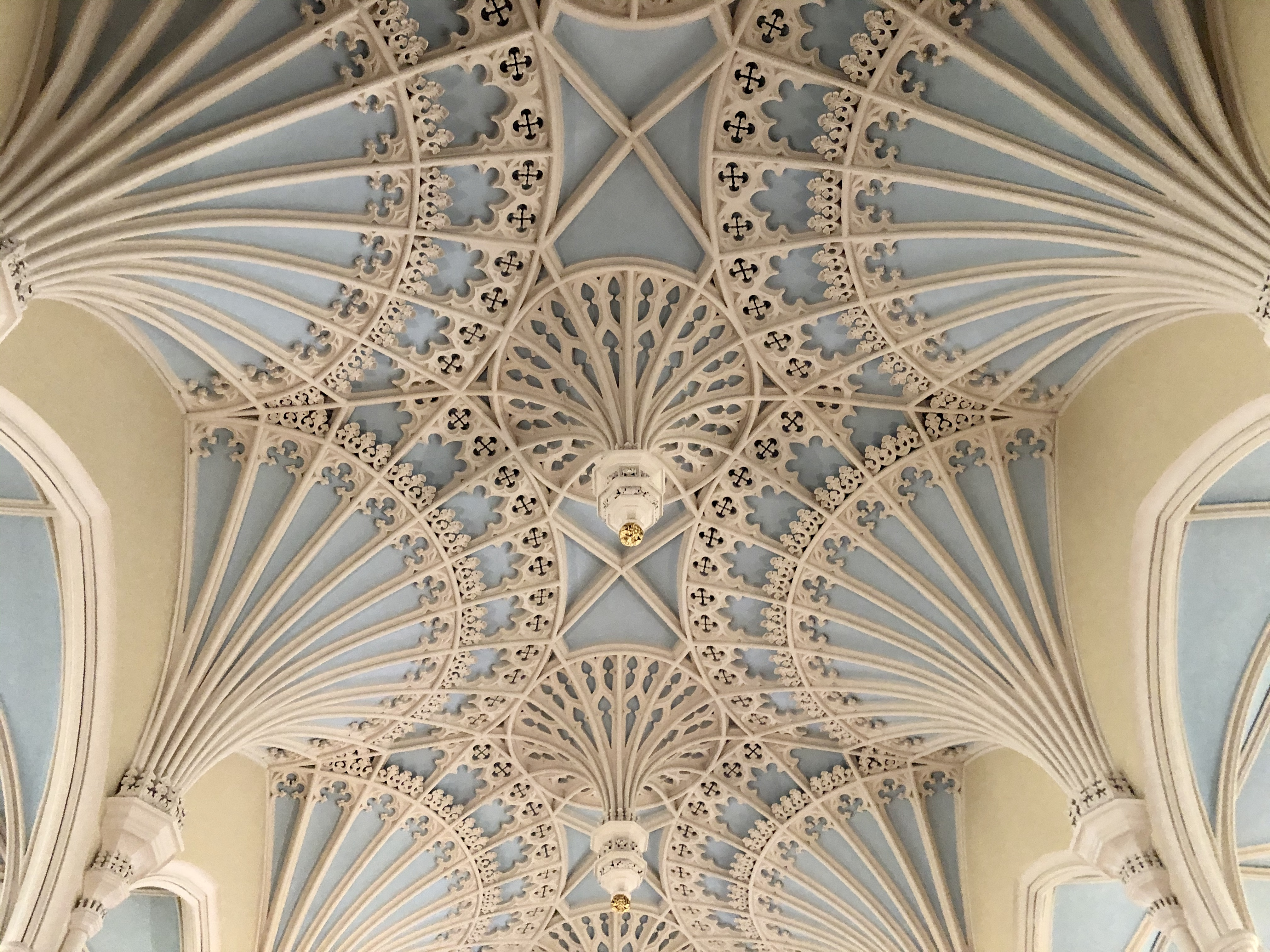 Originally built between 1772 and 1787, the church was converted to use as a Unitarian Church in 1817, and the ornate fan-vaulted ceiling was added to the interior in 1852. The church has seen extensive work and reconstruction of many features twice since then, following the collapse of the old tower into the building during the 1886 earthquake, and extensive roof damage during Hurricane Hugo in 1989.